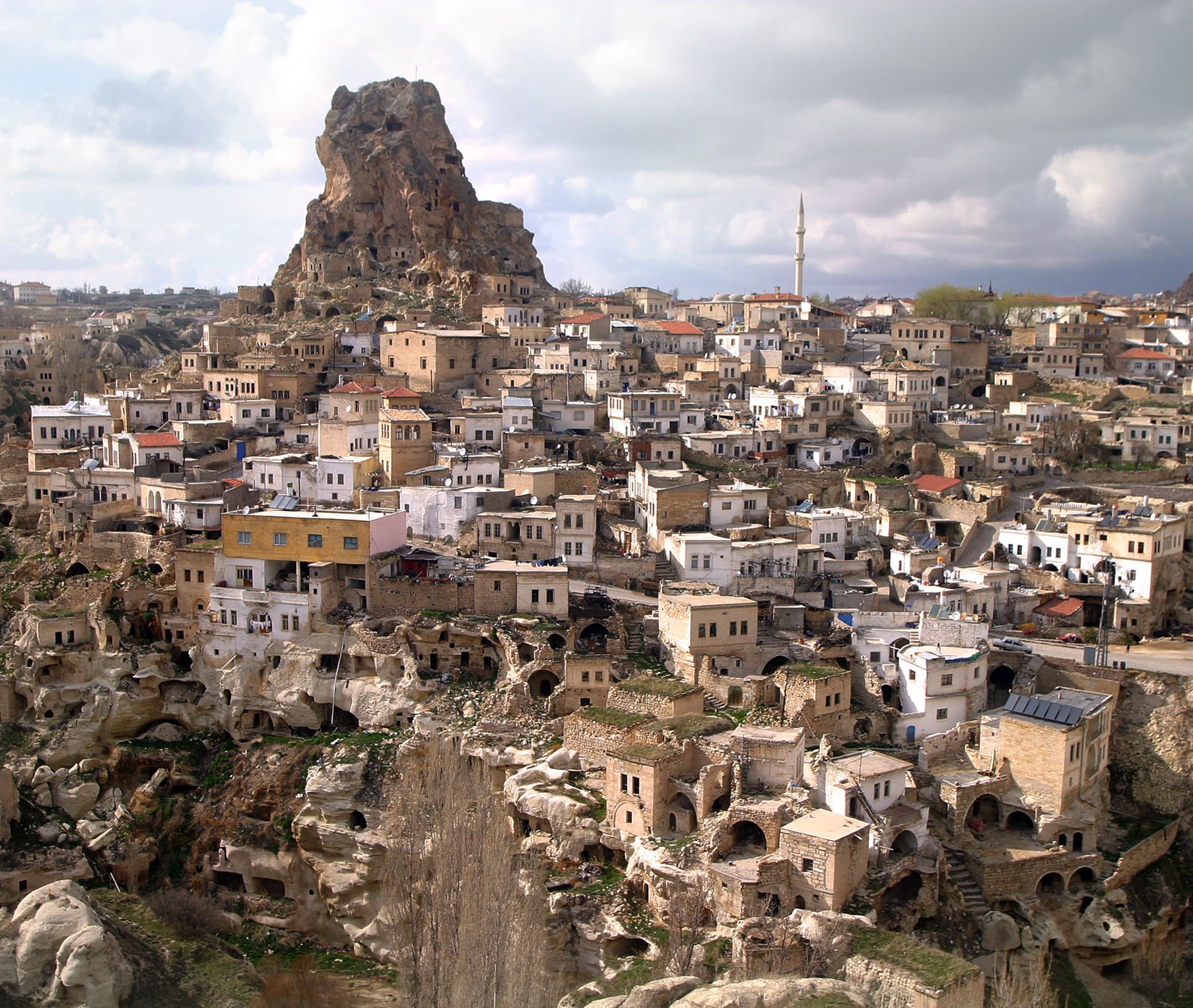 Town of Ortahisar in Cappadocia. Cappadocia, a region in central Turkey, is known for its Göreme National Park, which was added to the UNESCO World Heritage List in 1985.The first period of settlement within the region reaches to Roman period of Christian era. The area is also famous for its fairy chimneys rock formations, some of which reach 40 meters (130 feet) in height. Over thousands of years, wind and rain eroded layers of consolidated volcanic ash, or tuff, to form the sweeping landscape. From the 4th to 13th century AD, occupants of the area dug tunnels into the exposed rock face to build residences, stores, and churches which are home to irreplaceable Byzantine art.